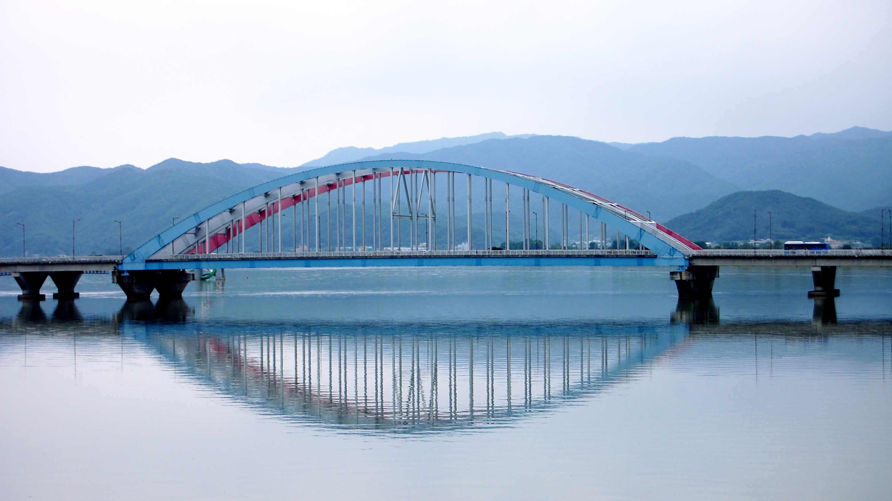 A bridge in Chuncheon